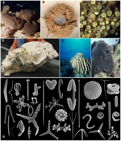 A. Bath sponge, Spongia officinalis, Greece (photo courtesy E. Voultsiadou); B. Bathyal mud sponge Thenea schmidti; C. Papillae of excavating sponge Cliona celata protruding from limestone substratum (photo M.J. de Kluijver); D. Giant rock sponge, Neophrissospongia, Azores (photo F.M. Porteiro/ImagDOP); E. Giant barrel sponge Xestospongia testudinaria, Lesser Sunda Islands, Indonesia (photo R. Roozendaal); F. Amphimedon queenslandica (photo of holotype in aquarium, photo S. Walker); G. SEM images of a selection of microscleres and megascleres, not to scale, sizes vary between 0.01 and 1 mm.